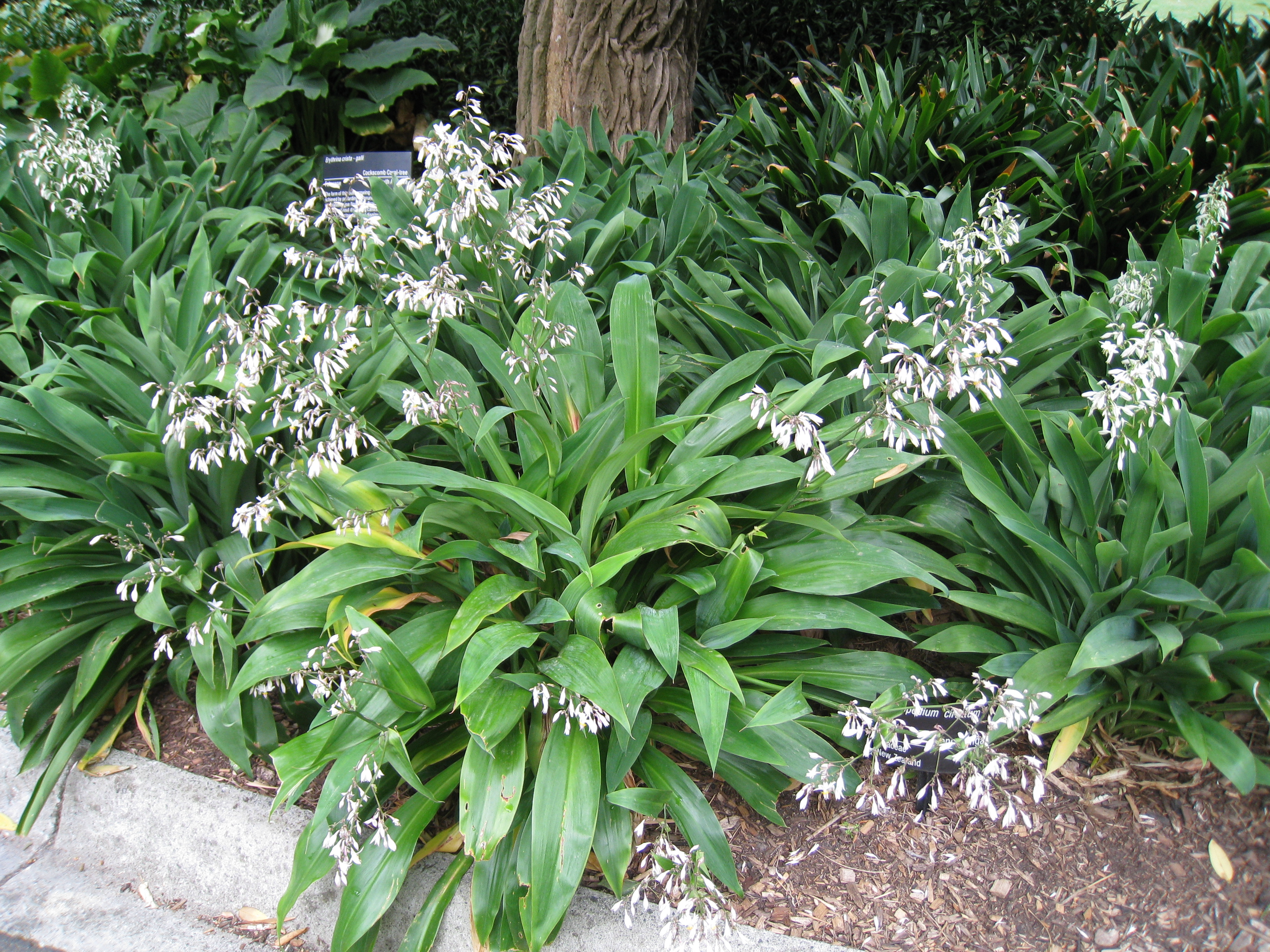 Arthropodium cirrhatumm, Royal Botanic Gardens Melbourne